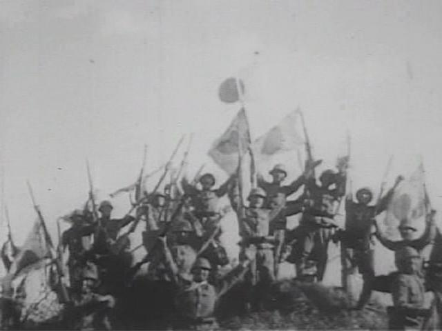 Imperial Japanese Army soldiers give a banzai cheer in My Japan.